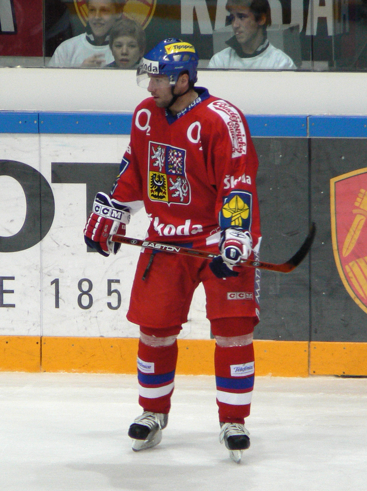 Czech ice hockey defenseman Angel Krstev playing for his national team in an LG Hockey Games / Euro Hockey Tour match against Finland in Tampere, Finland, February 2008.